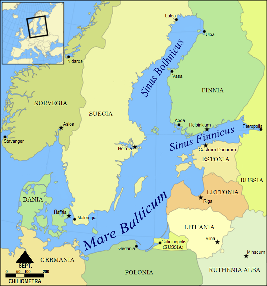 A map of the Baltic region, showing the Baltic Sea, Gulf of Bothnia and the Gulf of Finland